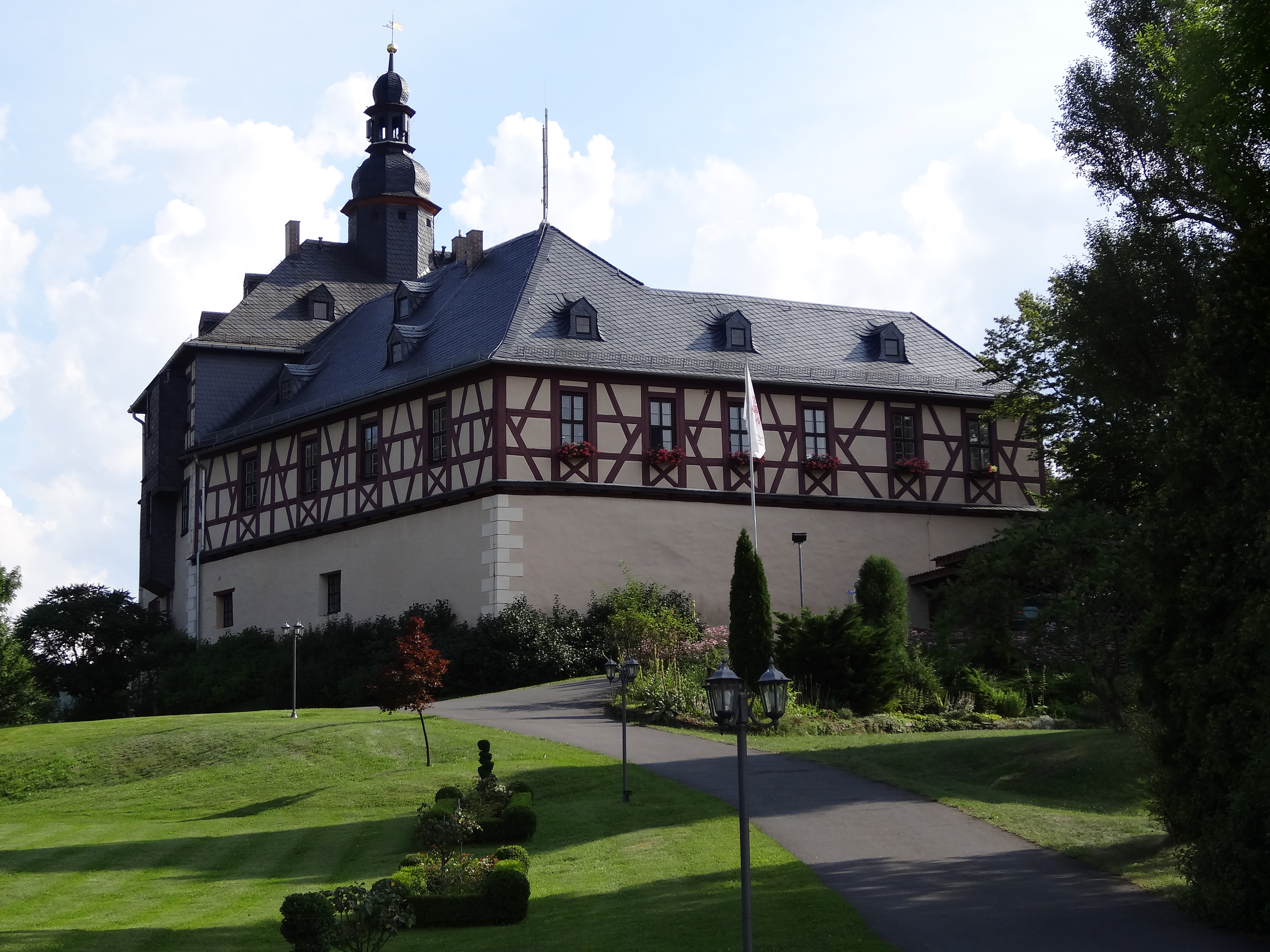 Castle Eichicht, Thuringia, Germany